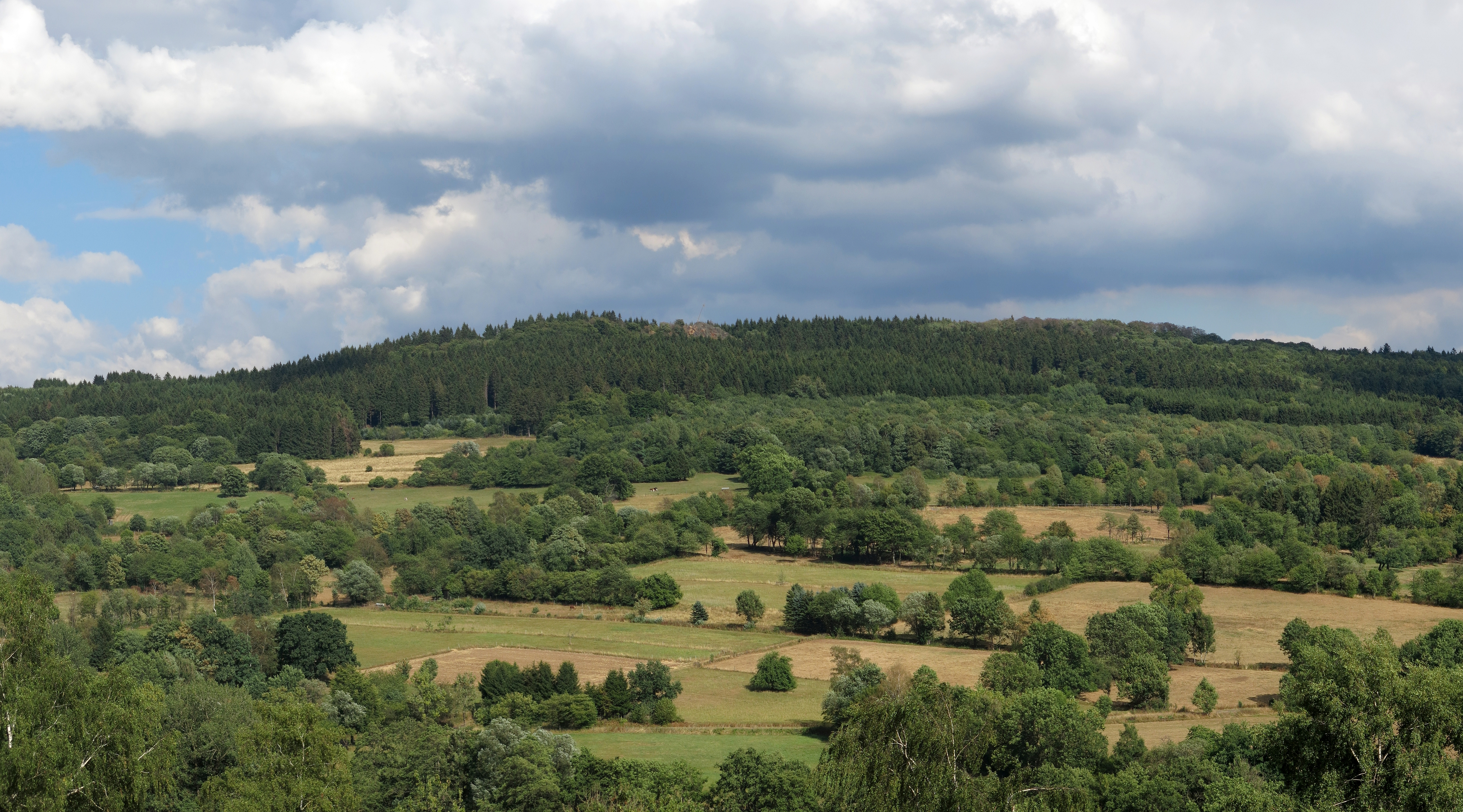 The Bilstein in the Vogelsberg seen from west